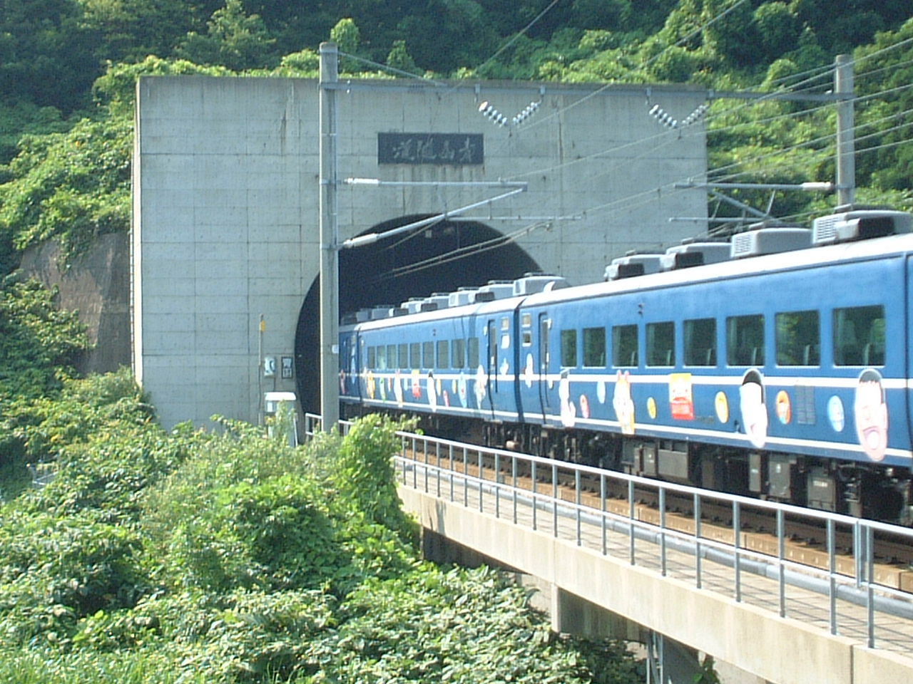 Aomori side of The Seikan Tunnel. the train is color-theme of Doraemon.